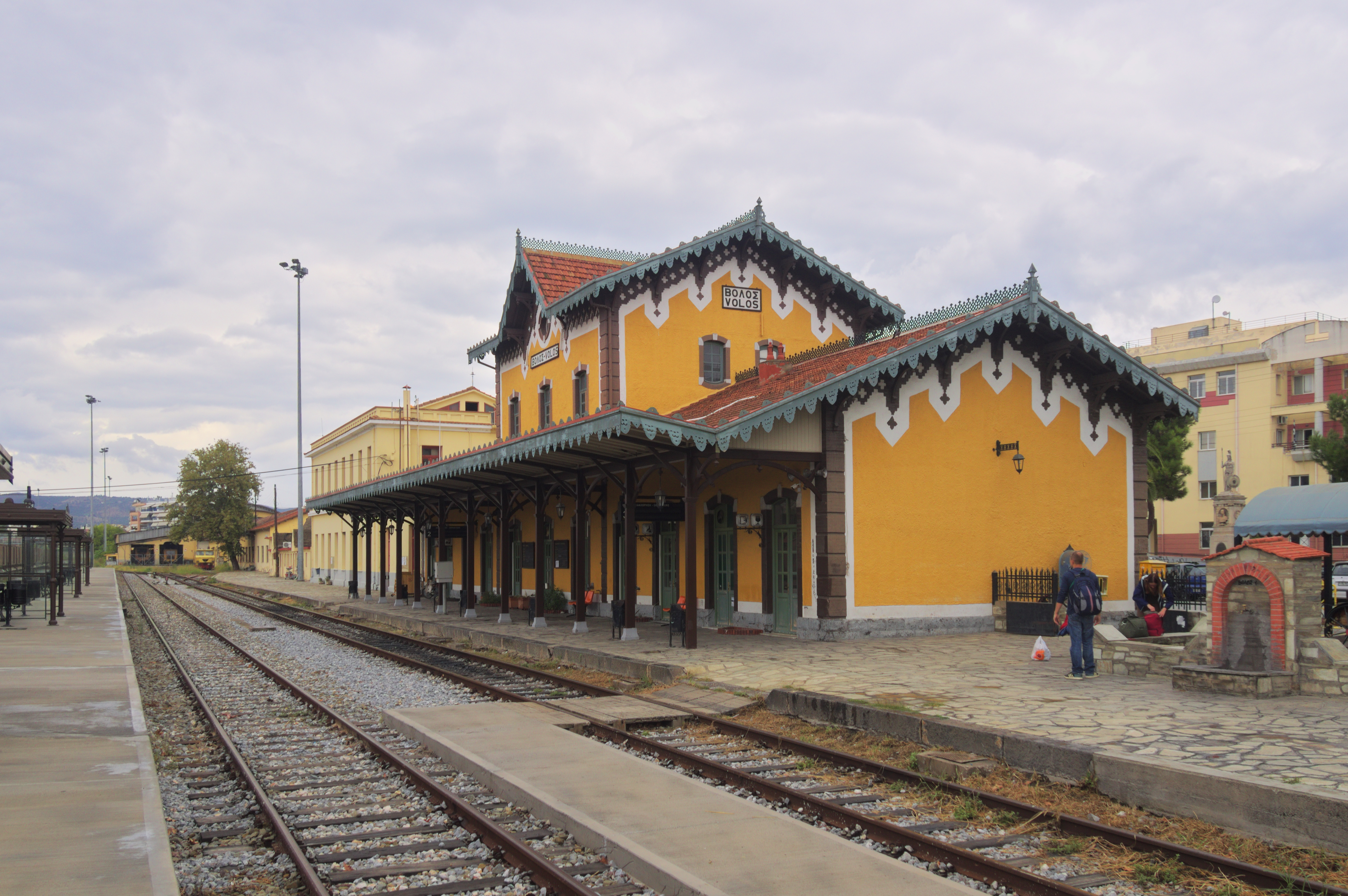 View of Volos train station from the platform.